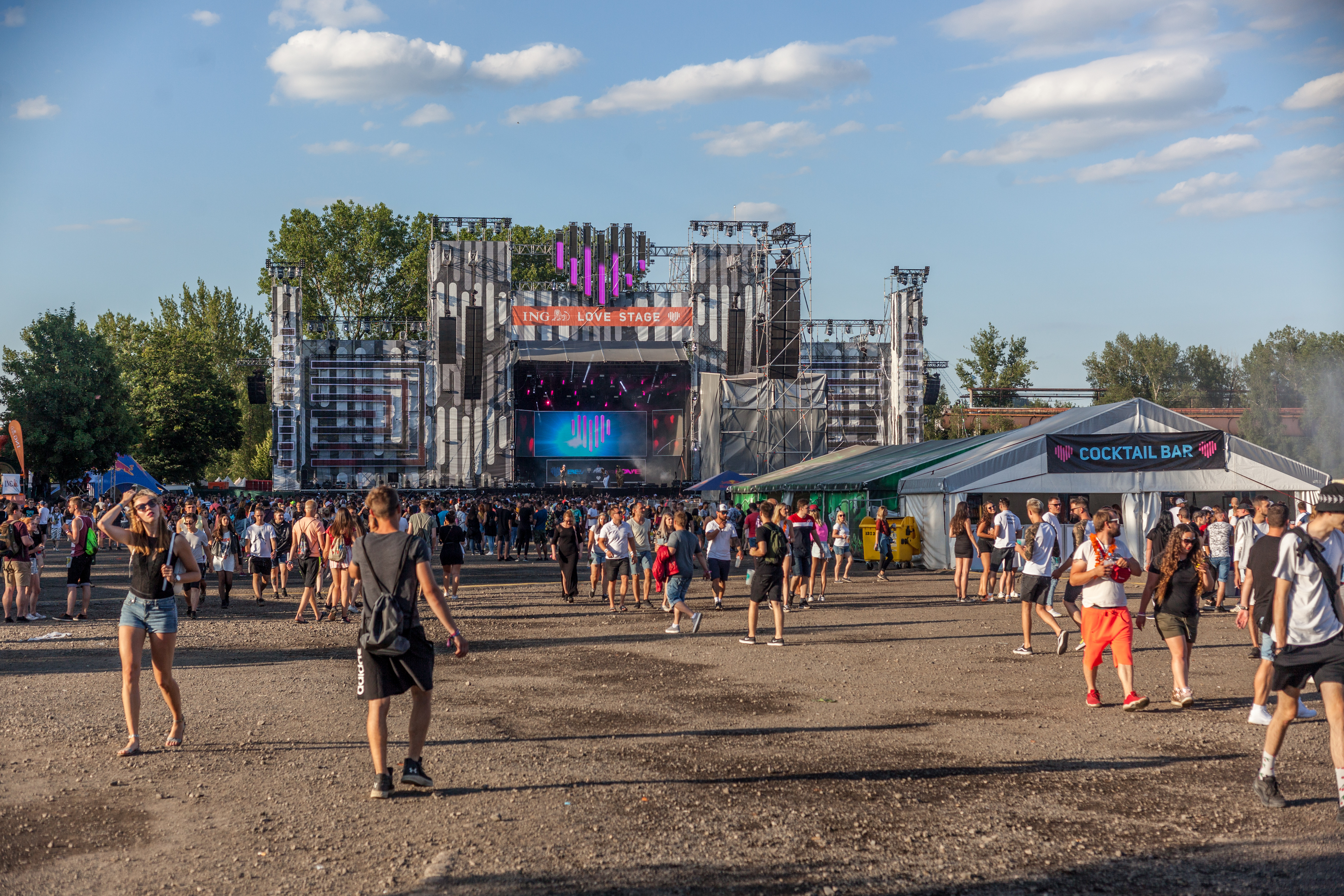 ING Love stage (main one) at electronic music festival Beats for Love on day; Ostrava, Moravian-Silesian Region, Czechia